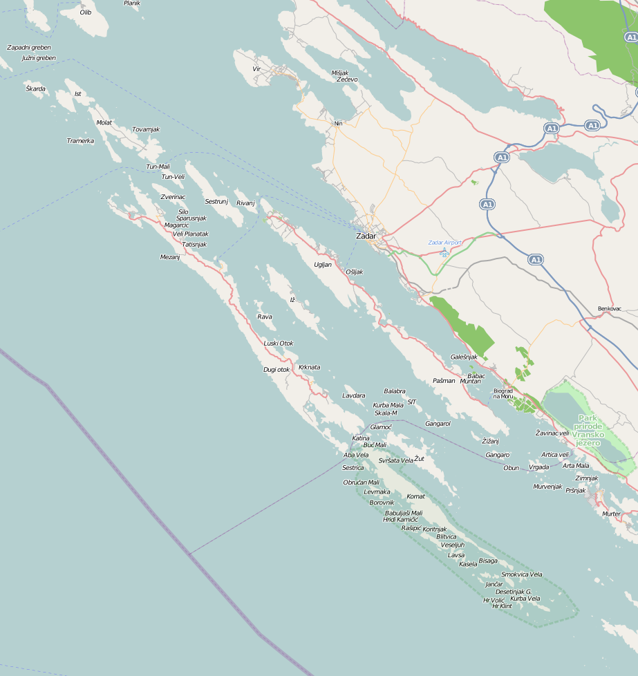 Map of Dugi Otok and surrounding islands, North Dalmatia, Croatia Geographic limits of the map: N: 44.383 ° S: 43.613° W: 14.649° E: 15.659°